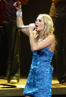 Carrie Underwood in Concert at Nokia Theatre in Grand Prairie, TX.